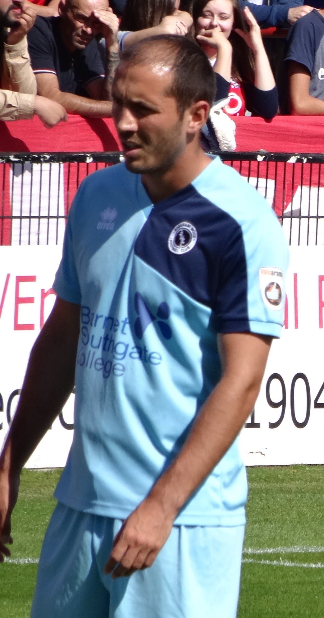 Joe Devera playing for Boreham Wood against York City at Bootham Crescent, York on 13 August 2016